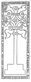 Drawing of a mediaeval ledger stone of a priest, decorated with stylised cross, St Peter's Church, Prestbury, Cheshire